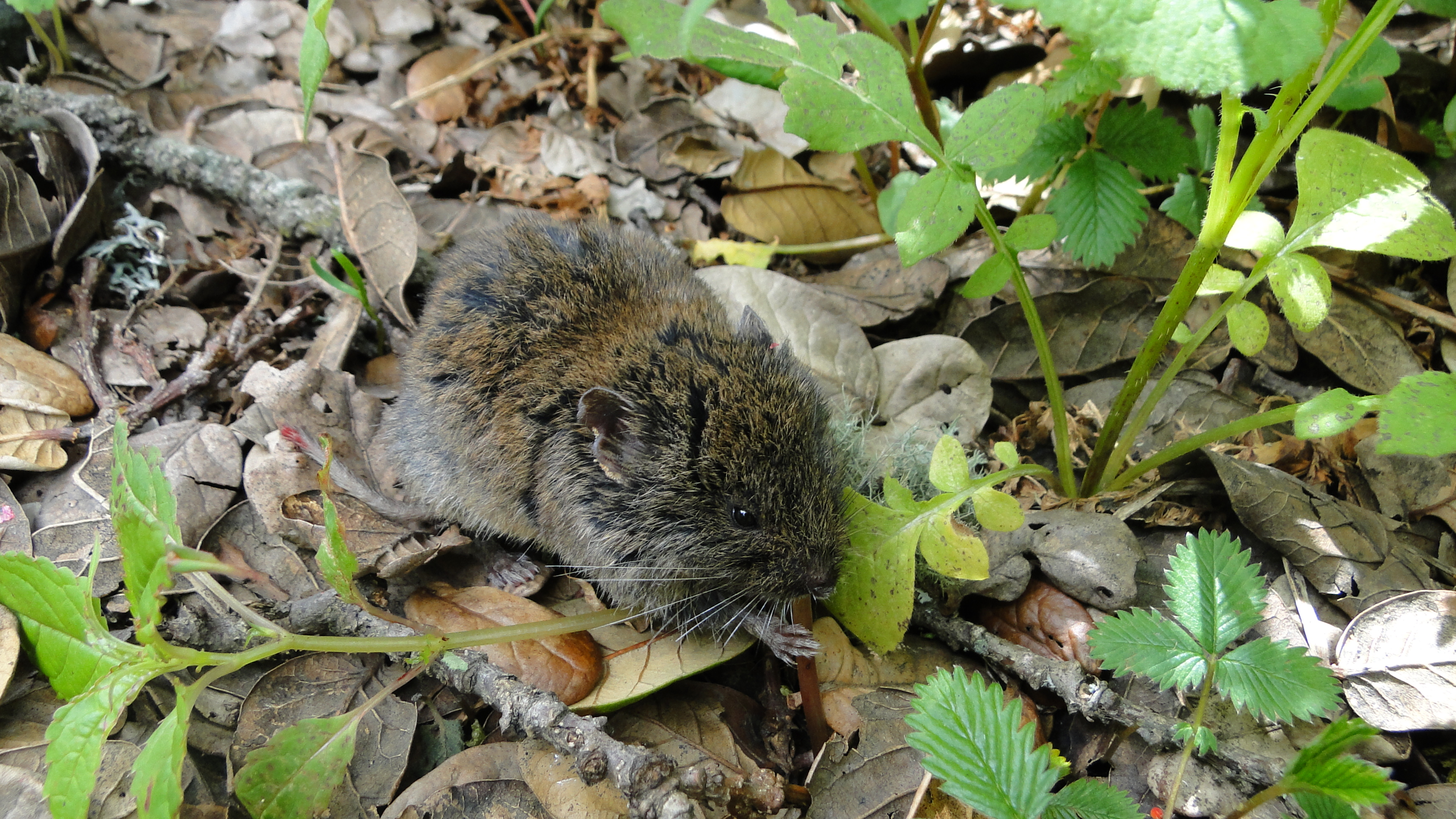 This is a vole (a rodent species) from Himachal Pradesh, India belonging to the genus Alticola. The species identity has to still be verified. It is most likely Alticola argentatus